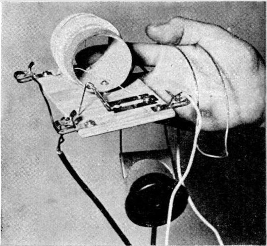 A "foxhole radio" receiver from World War 2. Not allowed powered radio receivers, which could give away their position to the enemy by the signal radiated by their local oscillator, American soldiers in World War 2 constructed their own homemade "crystal" radios so they could listen to news and music. The tuning coil (cylinder) was attached to a long wire antenna and ground. For a detector, this used a graphite pencil lead attached to the point of a safety pin, pressing against a "blue" steel razor blade. The graphite point touching the semiconducting oxide coating of the razor blade formed a crude point contact semiconductor diode which rectified the radio signal from the coil, extracting the audio signal from the radio frequency carrier wave, which was listened to with the earphones. The operator dragged the pencil lead across on the razor blade's surface until a sensitive spot was found and the station was heard, which required a lot of patience. The source says this foxhole radio belonged to Leutenant M. L. Rupert and was used on the Italian front.